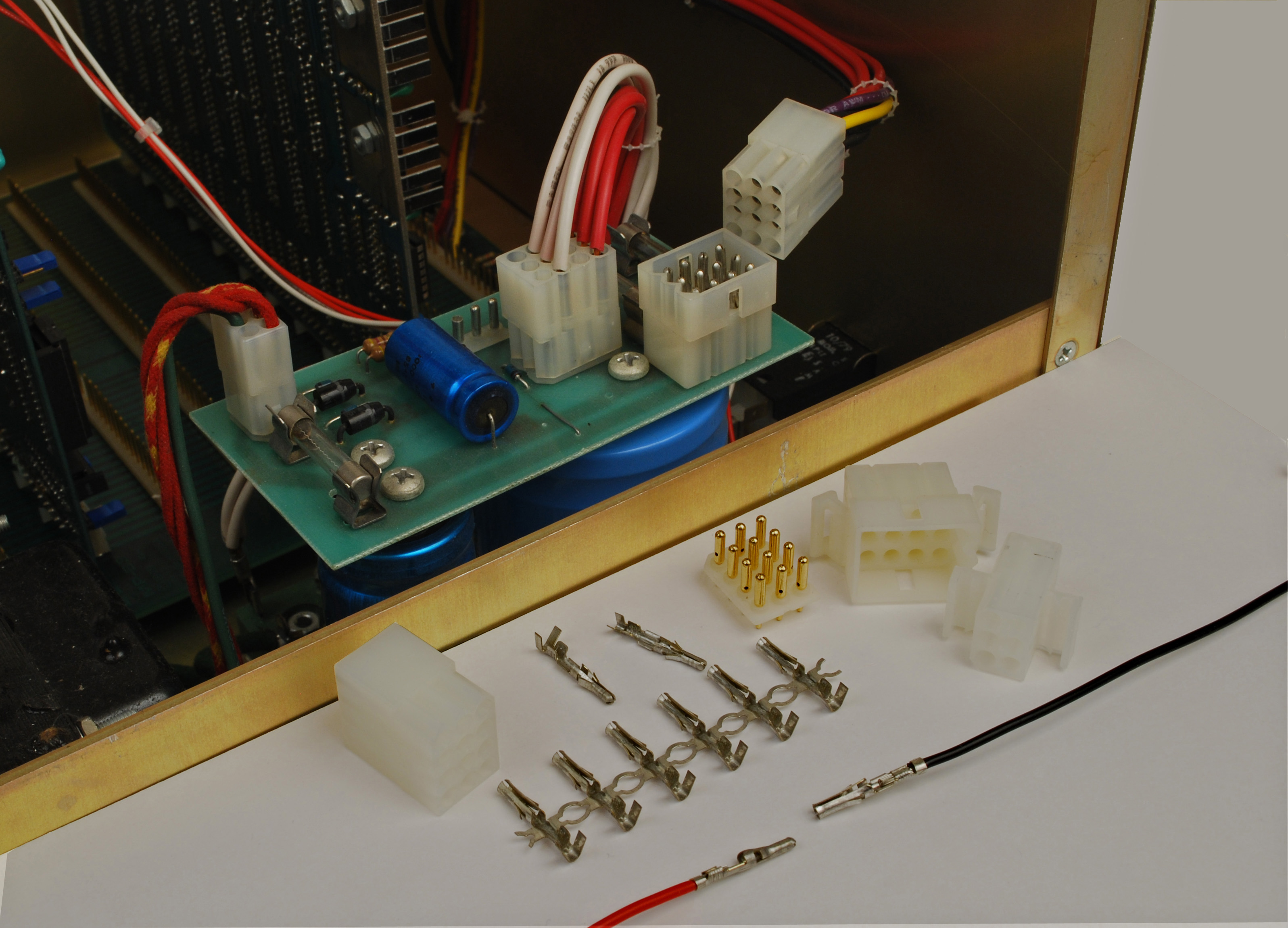 Molex Standard .093" Pin and Socket power connectors. Photo by Michael Holley with a Nikon D60 DSLR under tungsten lighting